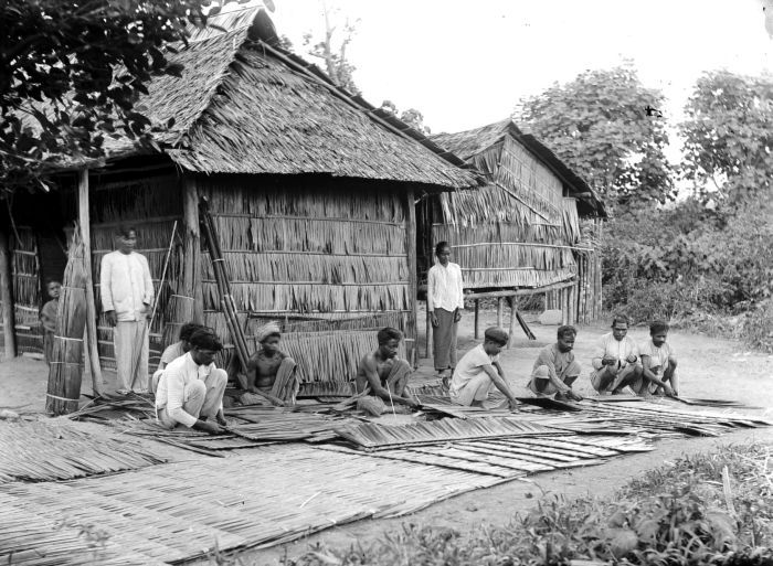 People constructing walls, made of sagopalm leafs, for pile houses at Waeno, Boeroe